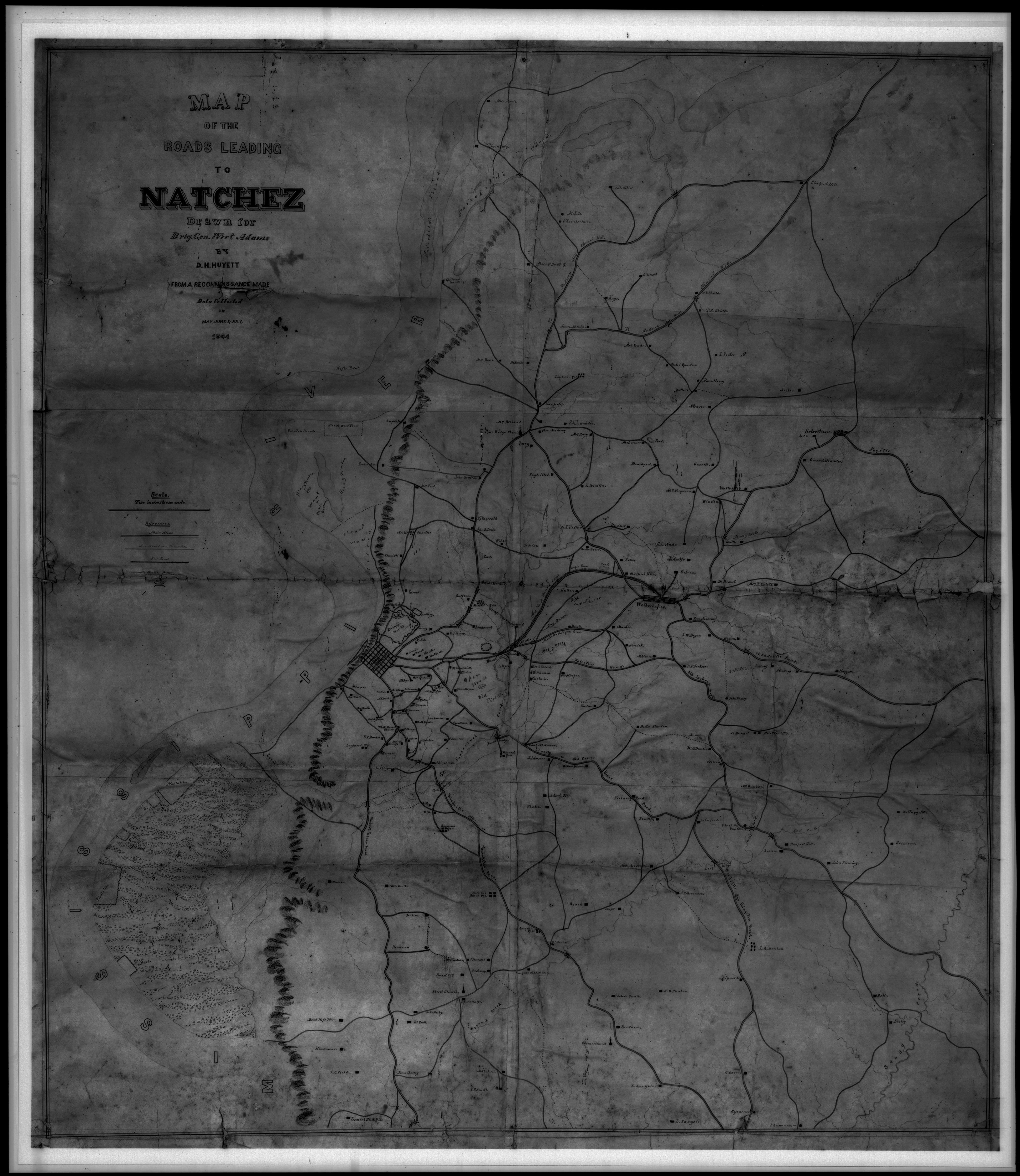 Collection: Historic Map Collection Call number: MA/98.0048(os) System ID: 13838. Map of the roads leading to Natchez drawn for Brig. Gen. Wirt Adams. Scanned as tiff in 2008/07/02 by MDAH. Please see our profile page for information on ordering. Credit: Courtesy of the Mississippi Department of Archives and History